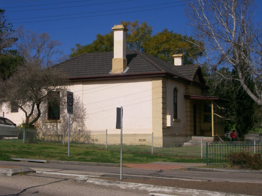 East Maitland Police Station